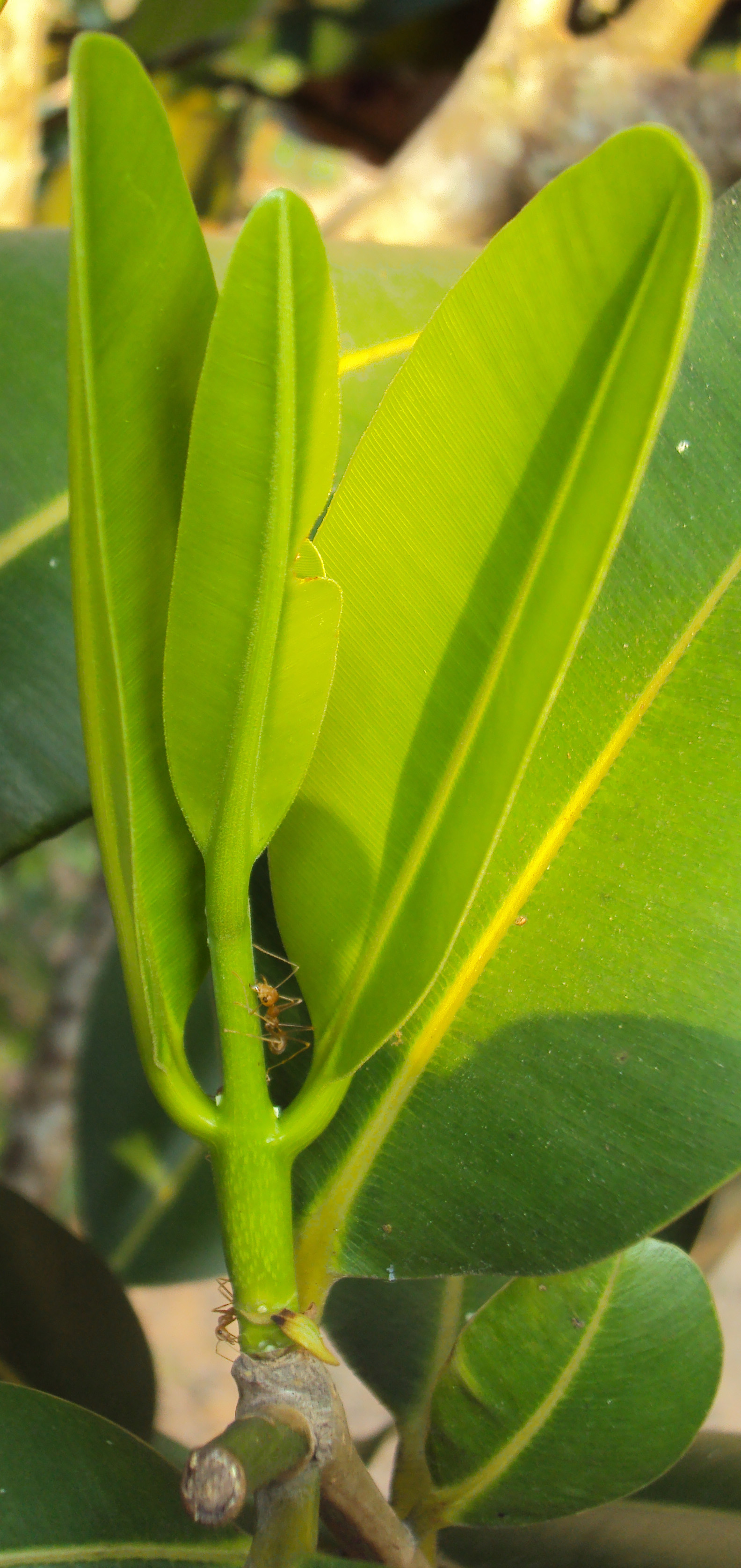 Calophyllum inophyllum young leaves, പുന്ന